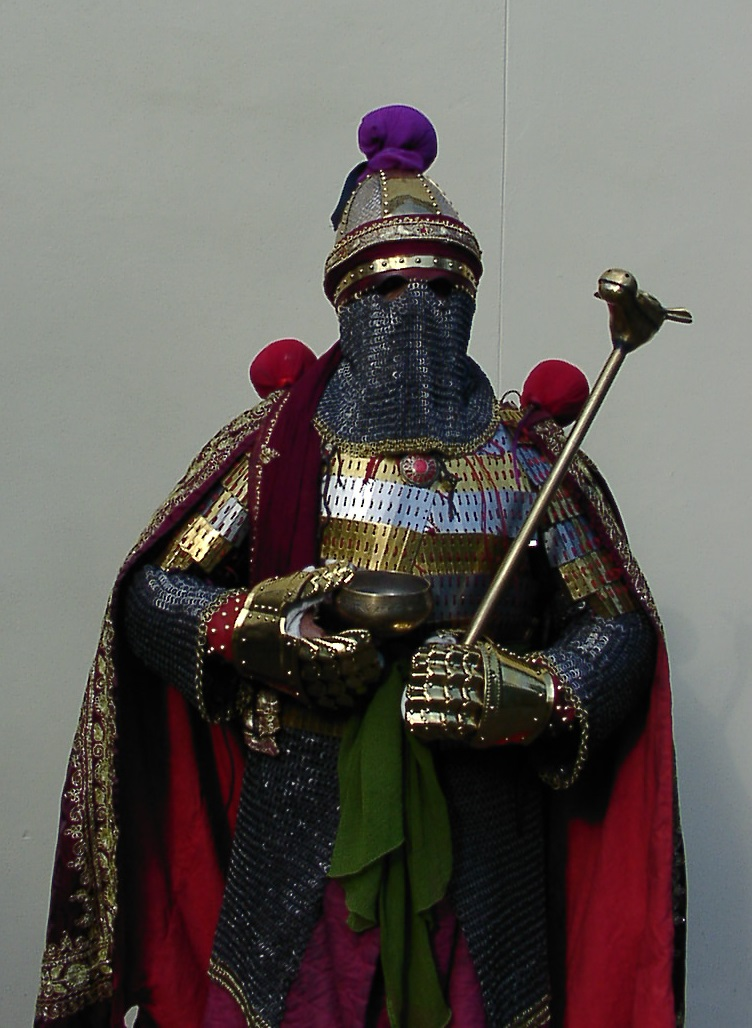 Reenactor Nadeem Ahmad in late Sasanian armour, taken 1st August 2013.